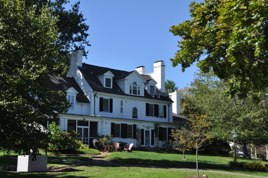 The "Mansion House" (formerly the residence of Massachusetts colonial governor William Dummer, the school's founding patron) at The Governor's Academy in Newbury (Byfield), Massachusetts.